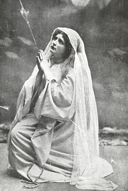 Opera vocalist Božena Kacerovská singing Aida in 1901